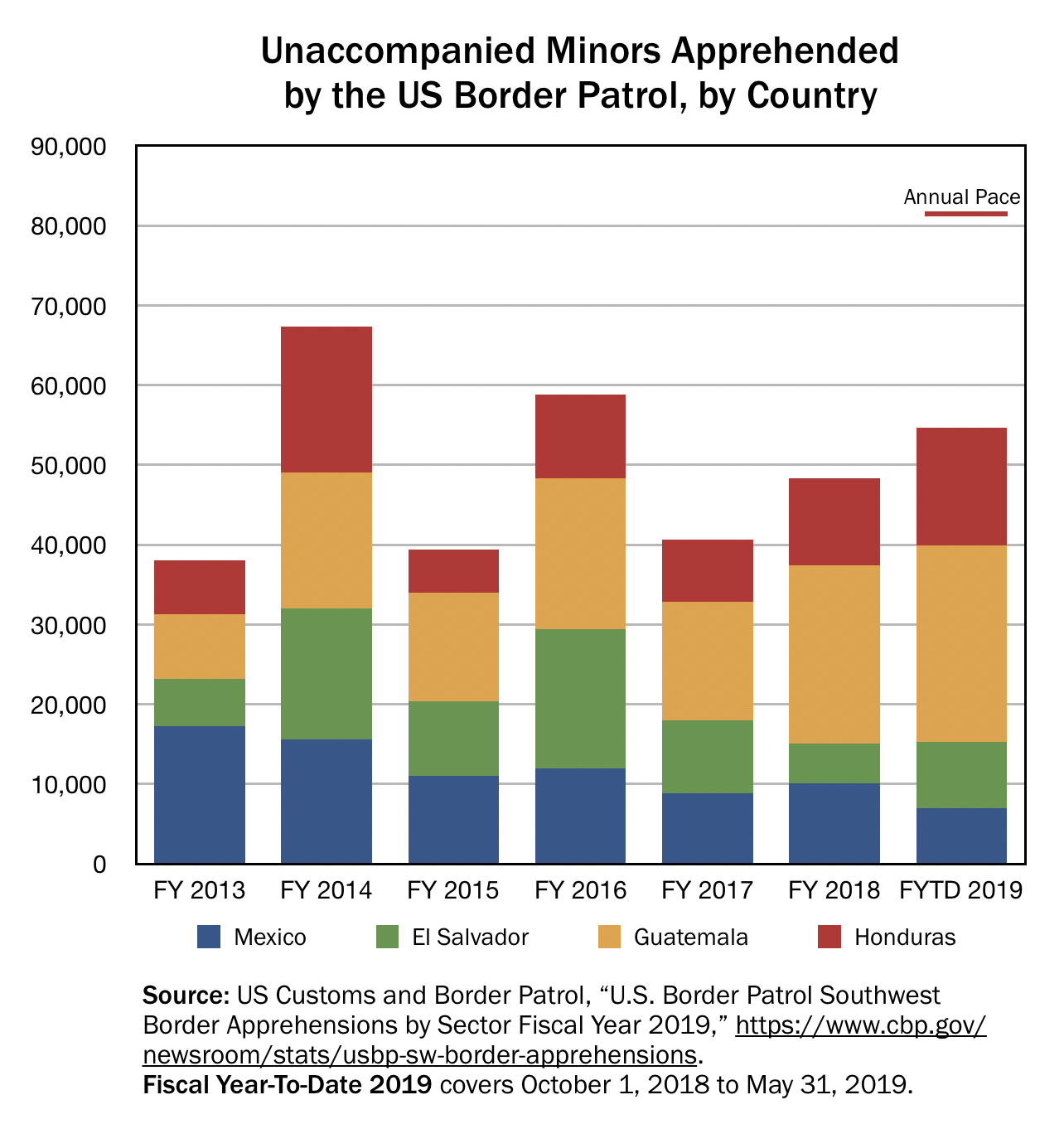 Stacked-bar chart showing the number of unaccompanied minors apprehended by the US Border Patrol, broken down by country of origin, 2014-May 31, 2019. Data Source: US Customs and Border Patrol, “U.S. Border Patrol Southwest Border Apprehensions by Sector FY2018,” Fiscal Year-To-Date 2019 covers October 1, 2018 to May 31, 2019.